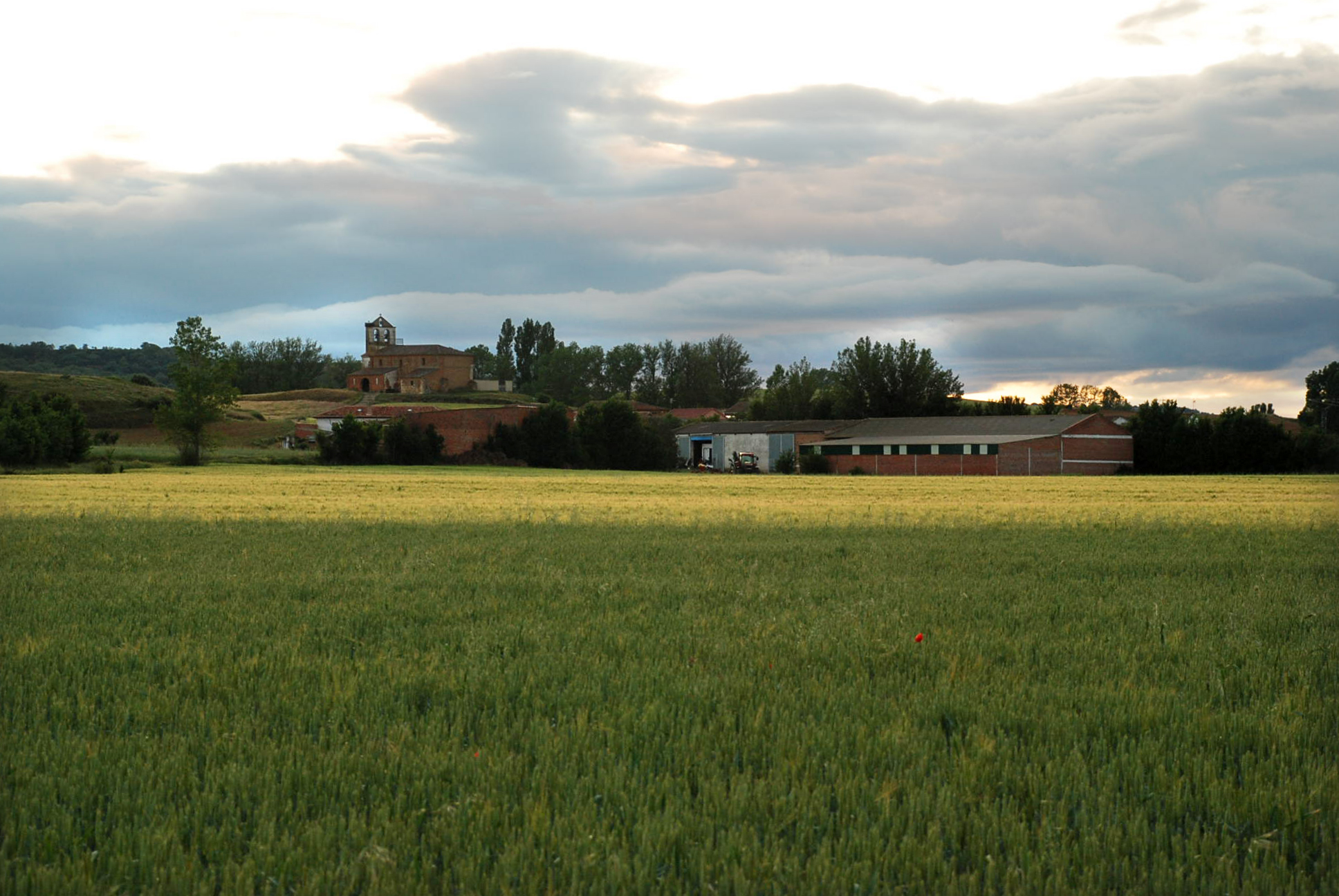 Villamelendro de Valdavia (Palencia, Castile and León).